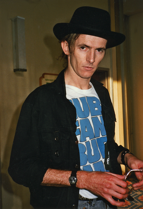 Sean Kelly of Models in the lobby of the Miyako Hotel in San Francisco, California - 1986